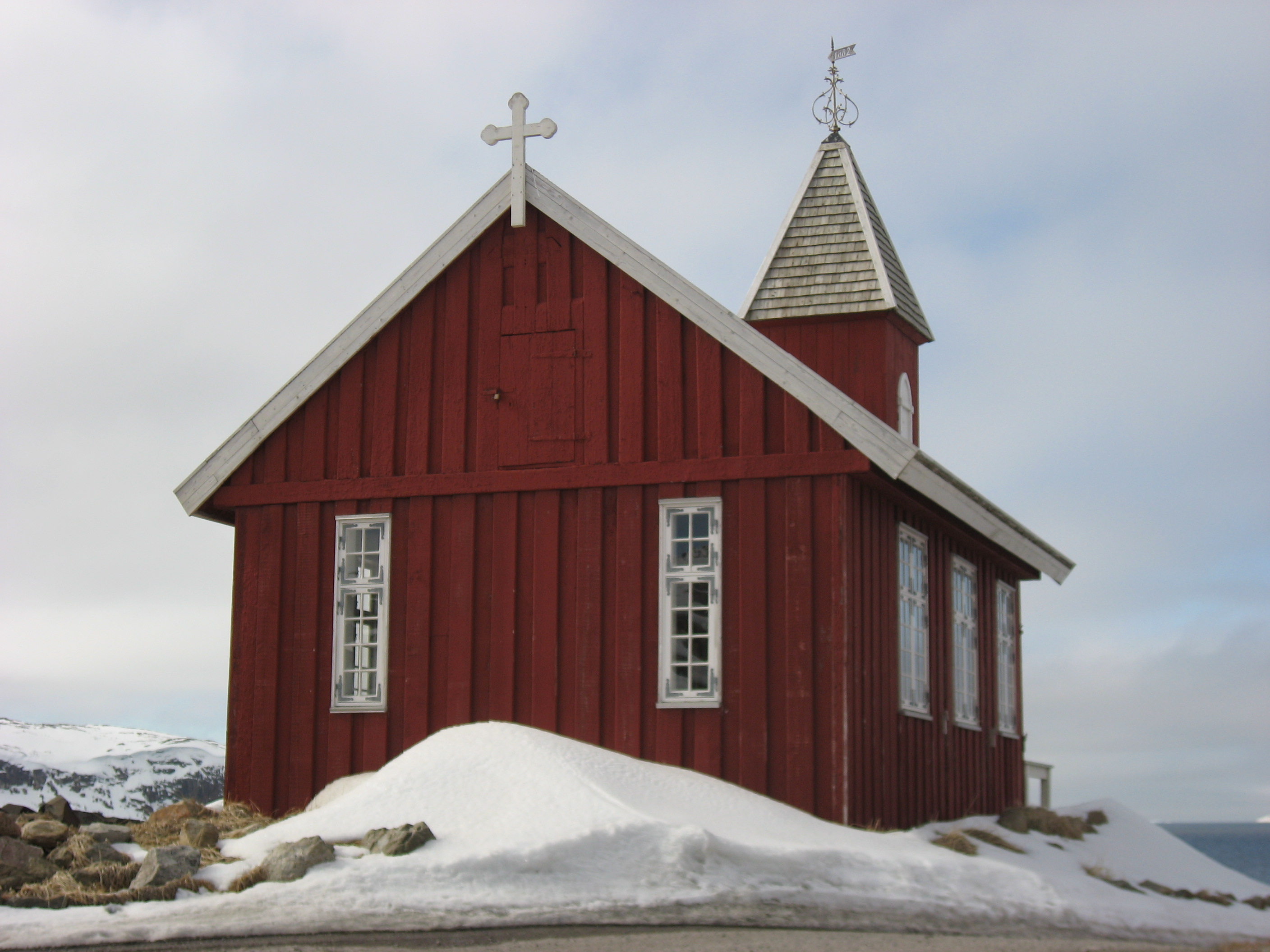 The old church in Upernavik, Greenland. The church was originally built in 1839 making it the second-oldest existing building in Upernavik. The church was extended with the tower in 1882. This year is also visible on the wheathercock in the photo. In the period 1925-1950 the building was used by a local administrative authority called the Sysselraad. This usage ended with the introduction of a town council in 1950. In the beginning of the 1950-ties, the building was turned into a museum by Andreas Lund-Drosvad in cooperation with camerarius Knudsen.